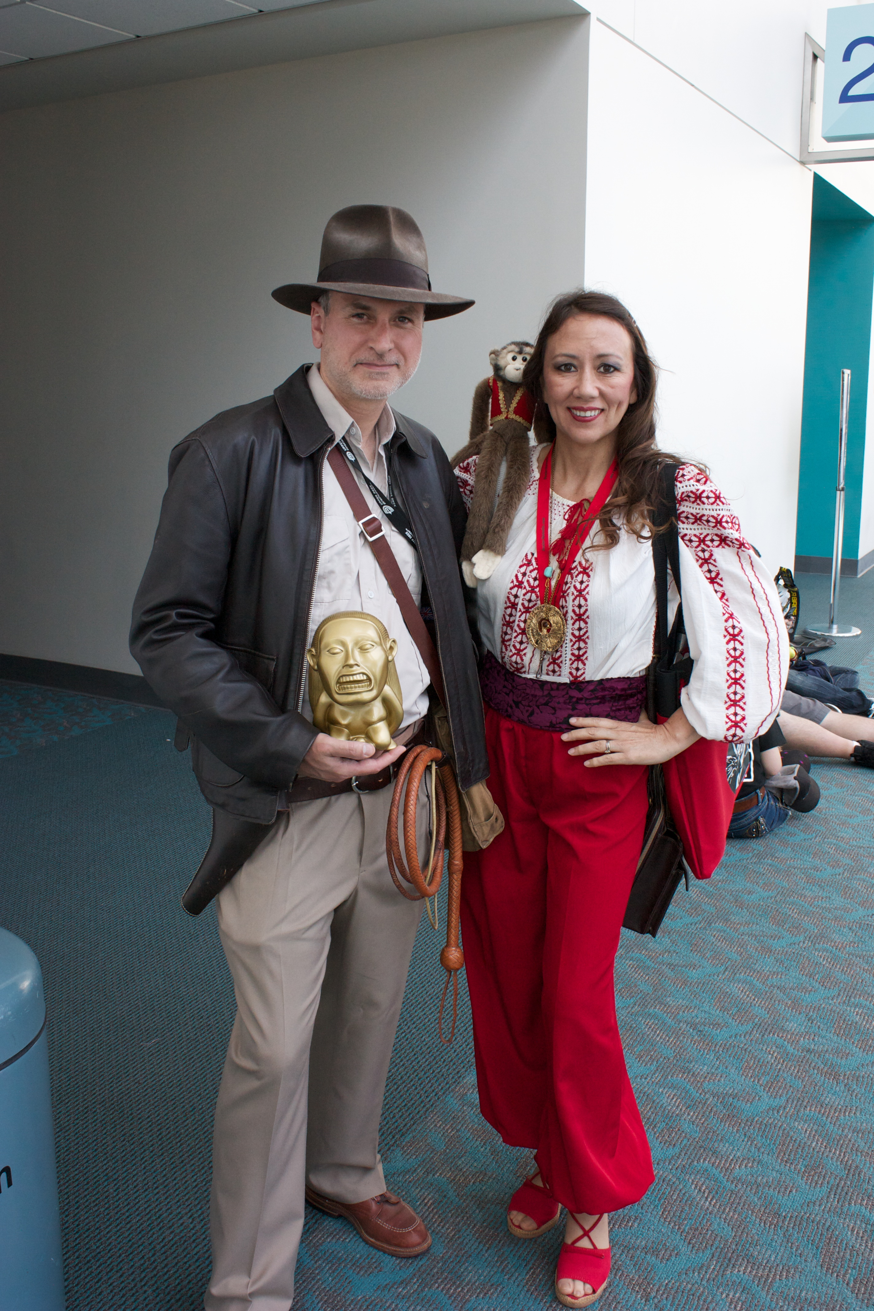 They even have the monkey, this couple also appear in Steampunk outfits .